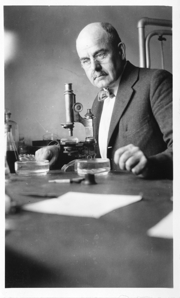 Zoologist Charles Manning Child (1869-1954) was professor at the University of Chicago, 1916-1934, and taught invertebrate zoology at Marine Biological Laboratory, Woods Hole.